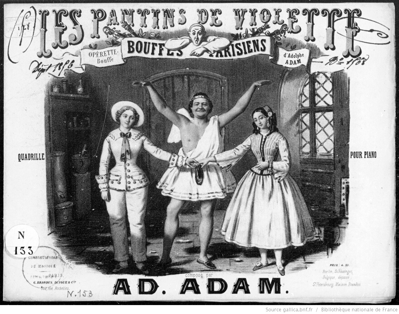 Adolphe Adam - Les Pantins de Violette (Quadrille), title page with scene from the eponymous opérette-bouffe